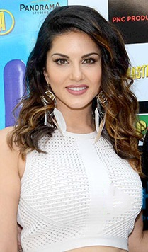 Sunny Leone snapped promoting the film 'Mastizaade'